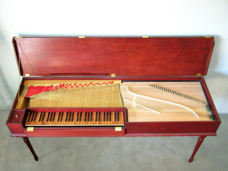 I took this picture of my clavichord. Instrument by Paul Maurici, 2001, after Joh. Albrecht Hass. Five octaves, unfretted, case of mahogany, poplar, and birch. Maple naturals, ebony accidentals.